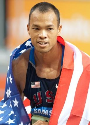 Bryan Clay during Doha 2010 World Indoor Championships